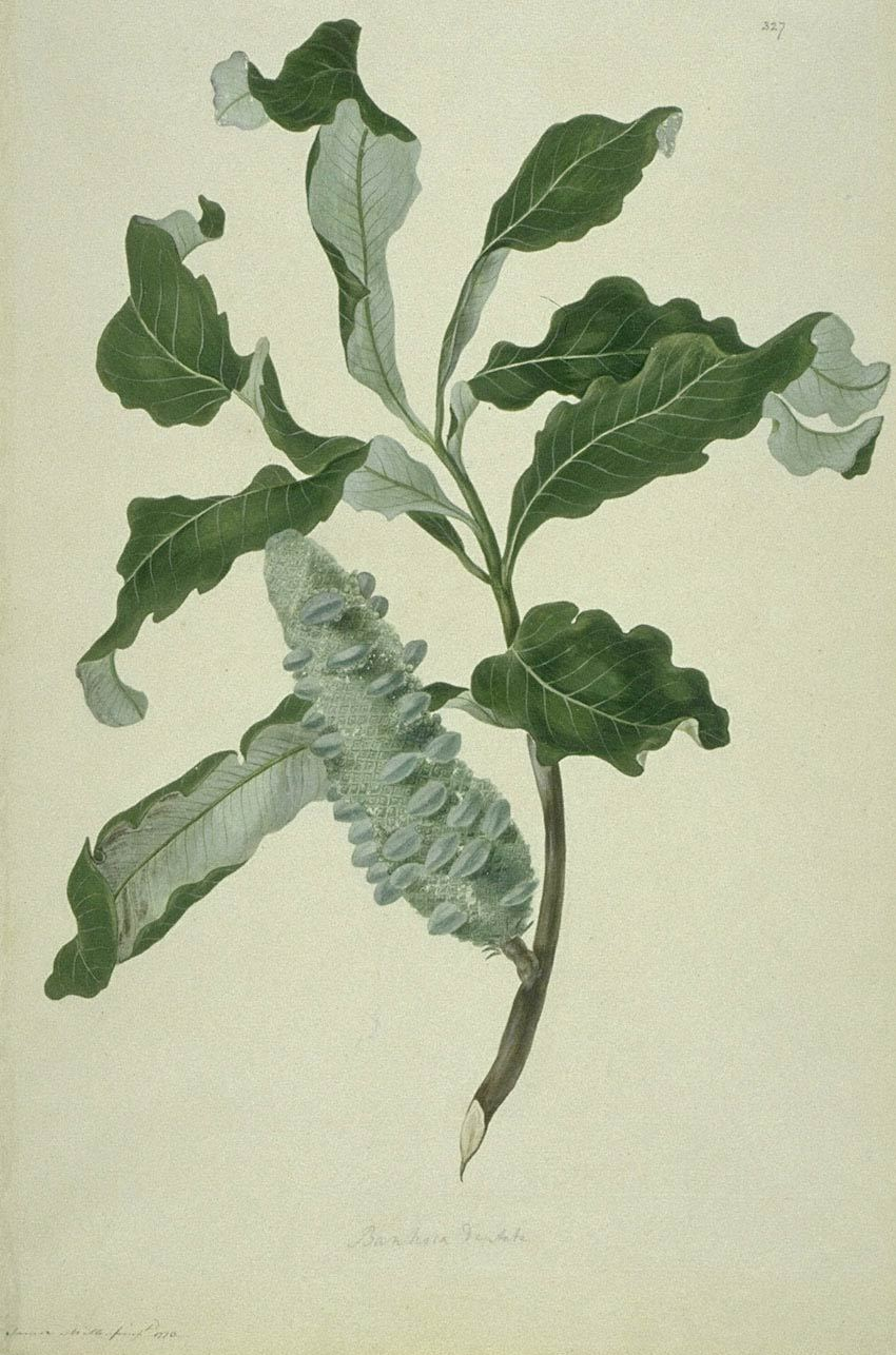 This is a watercolour-on-paper drawing of Banksia dentata. The attributed artist is James Miller, but the work would have been heavily based on a partially coloured sketch by Sydney Parkinson (d. 1771), Sir Joseph Banks' botanical artist who was present when the species was first collected at Endeavour River, Australia.